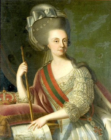 Maria I, queen of Portugal